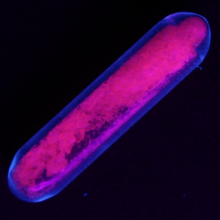 Europium sulfate, Eu2(SO4)3, a white salt, fluoresces red under ultraviolet light